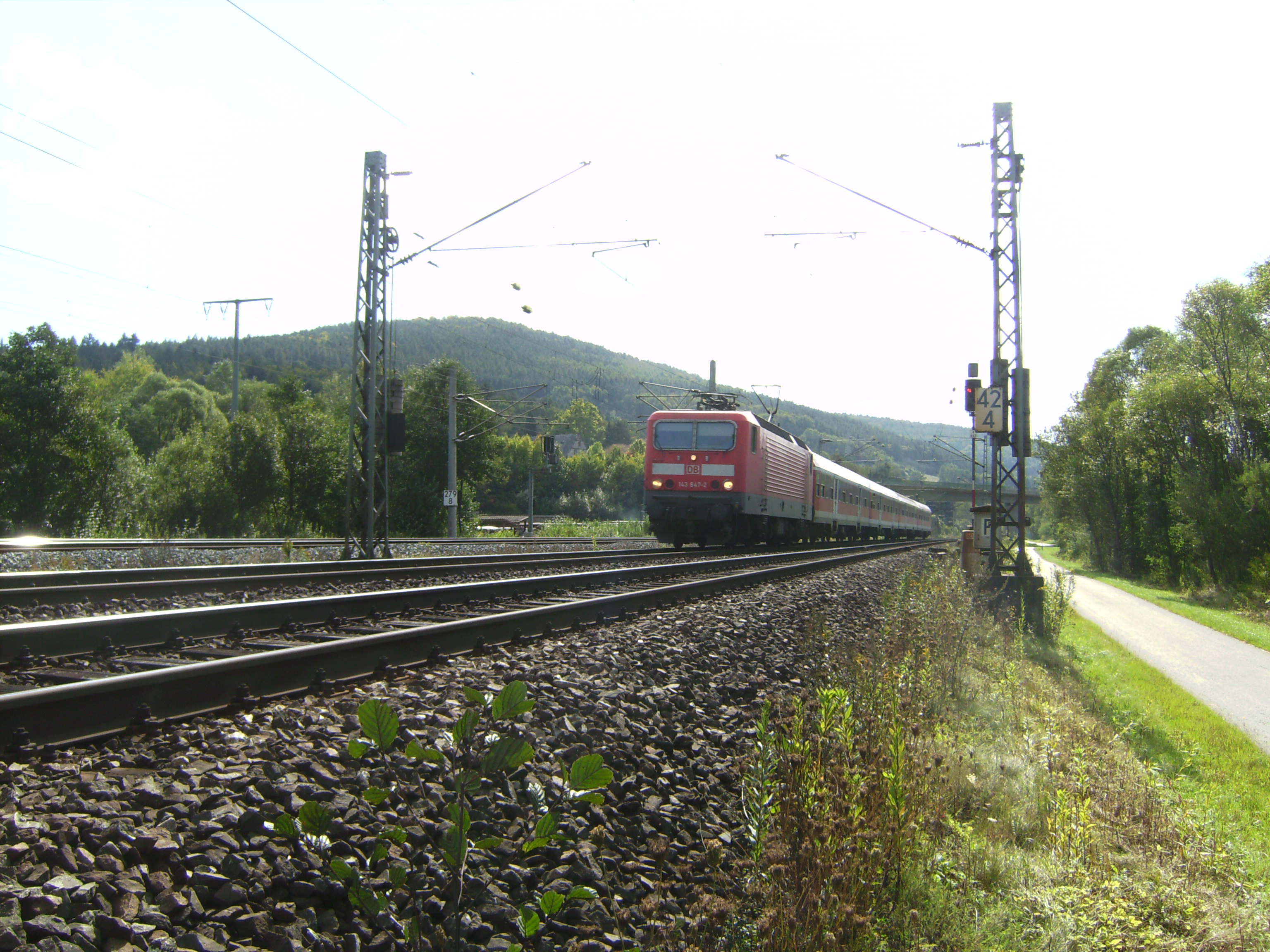 A regional train from Gemünden (Main) on the Fulda-Main railway line near Burgsinn